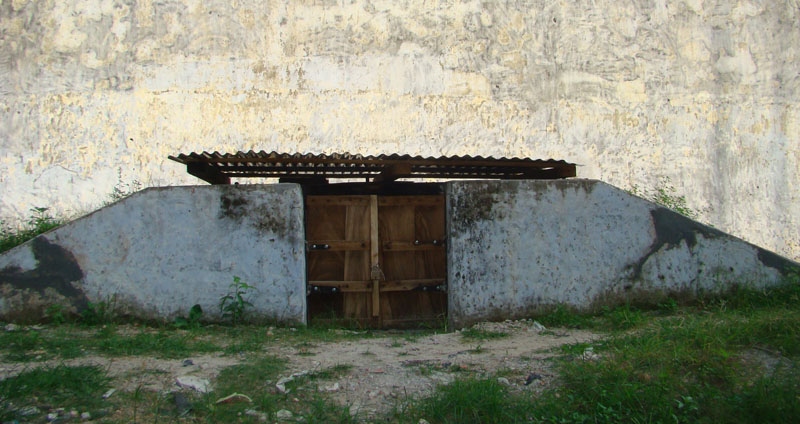 সুর্য সেন কে ফাঁসি দেয়ার স্থানের সন্মূখ চিত্র।